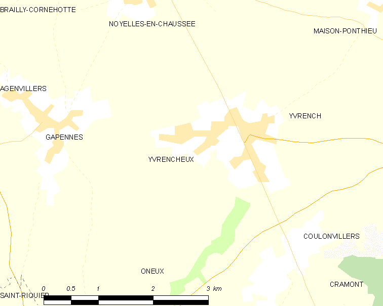 Map of French municipality Yvrencheux